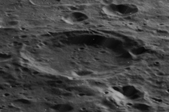 Oblique view of Cori, on the moon.